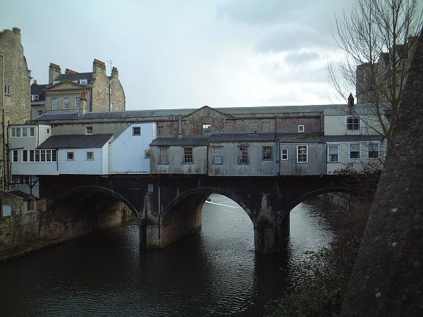 View of Pulteney Bridge, Bath from the north, showing ad hoc development of premises on the bridge